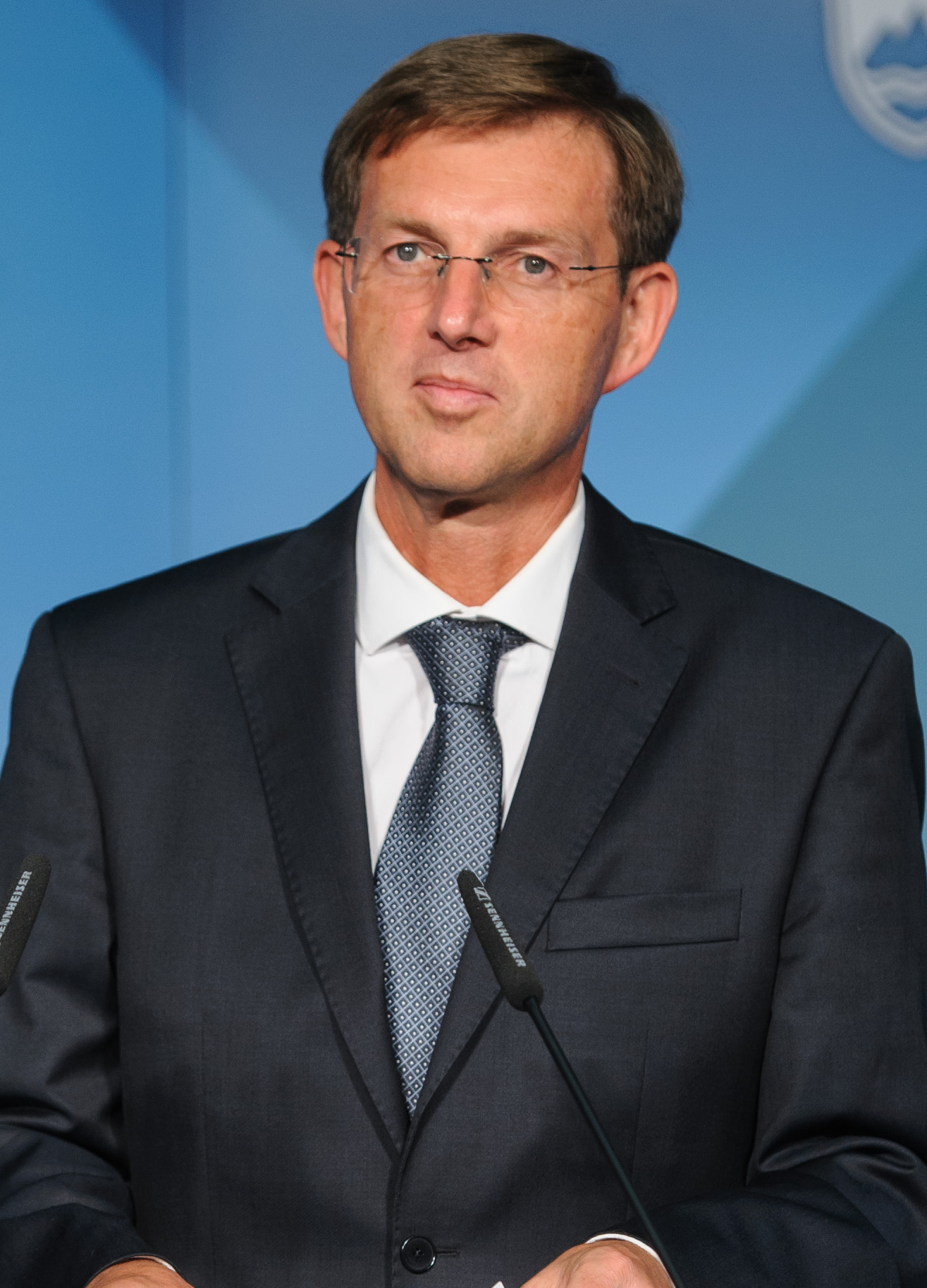 Miro Cerar, President of Slovenian government (2014)